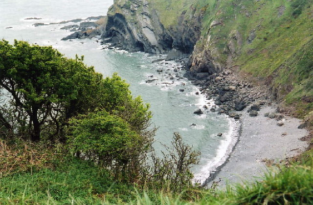 Hartland: Shipload Bay. View from the South West Coast Path, at the top of East Titchberry Cliff